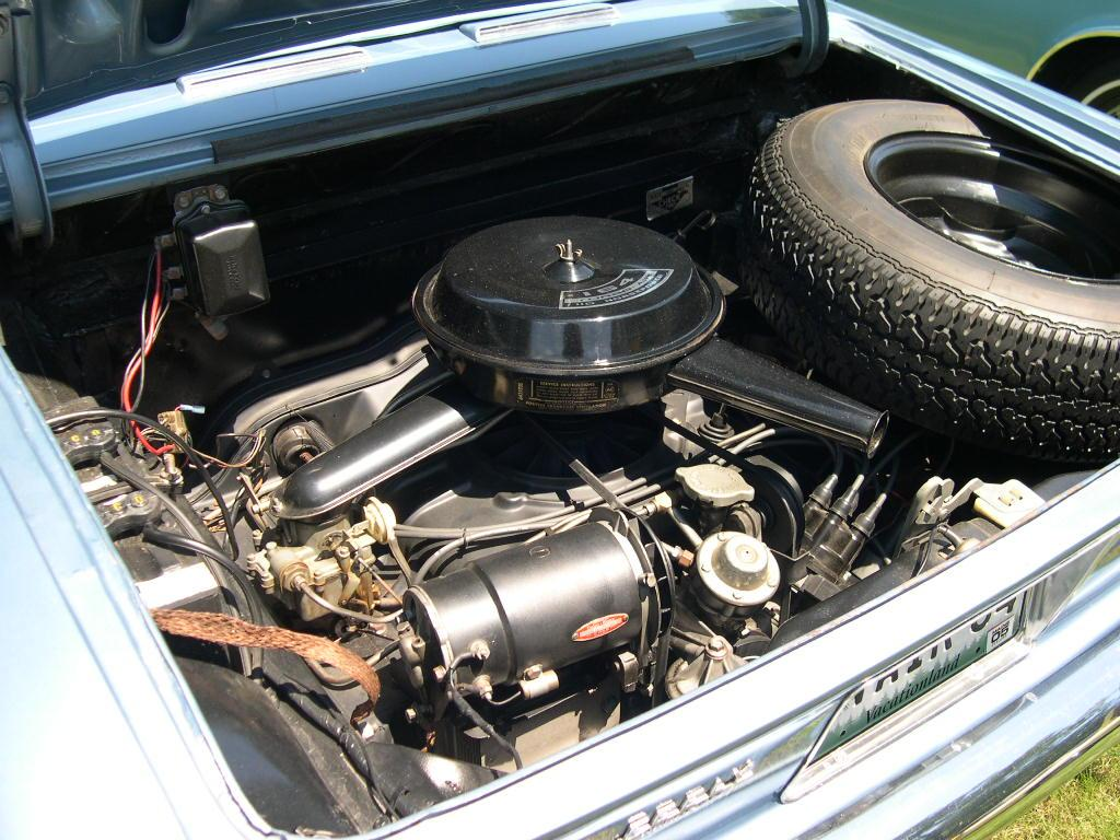 Chevrolet 1964 Corvair 2 carburetor 110hp 164(cubic inch)"Turbo-Air" engine